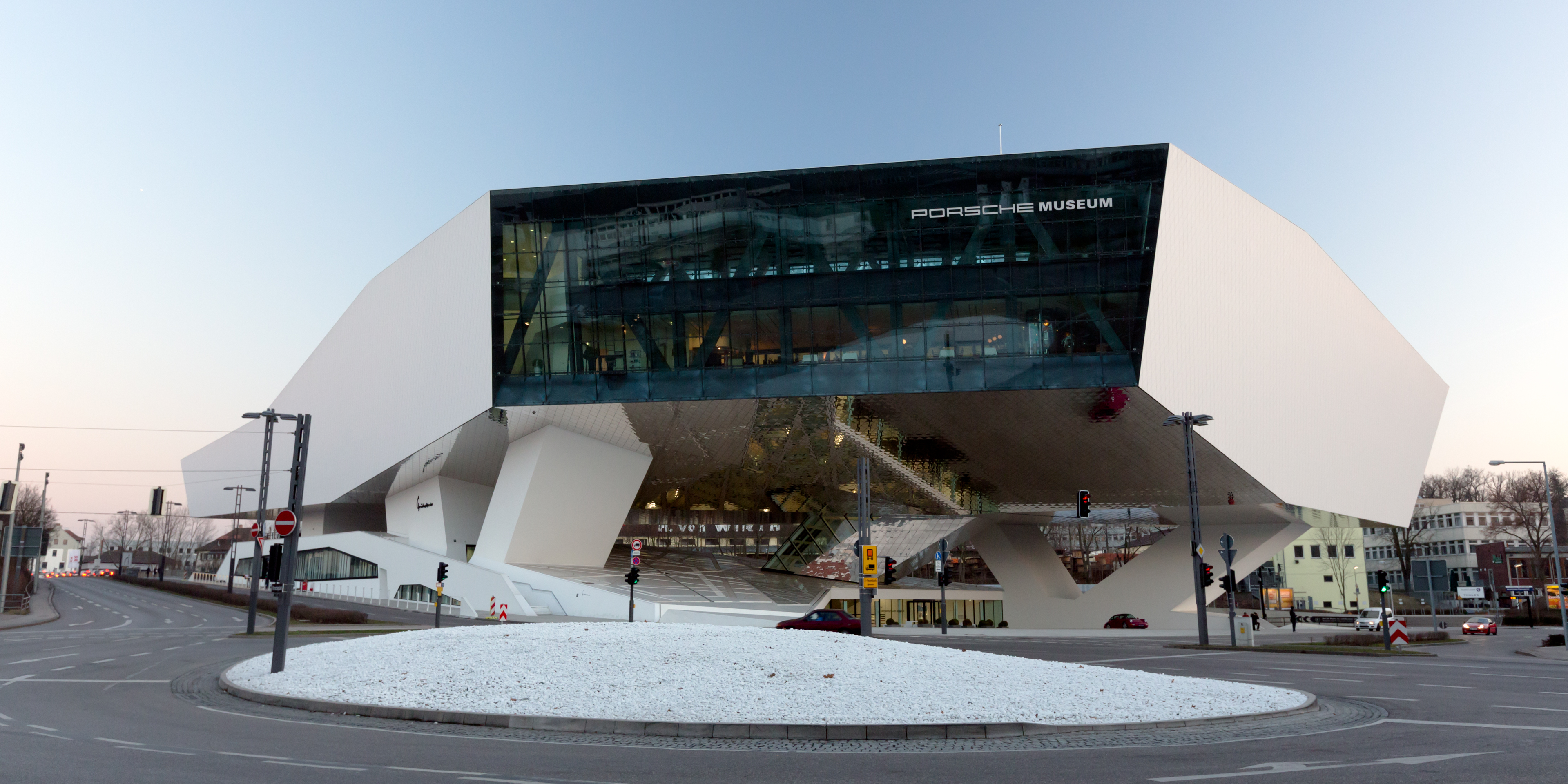 Porsche Museum